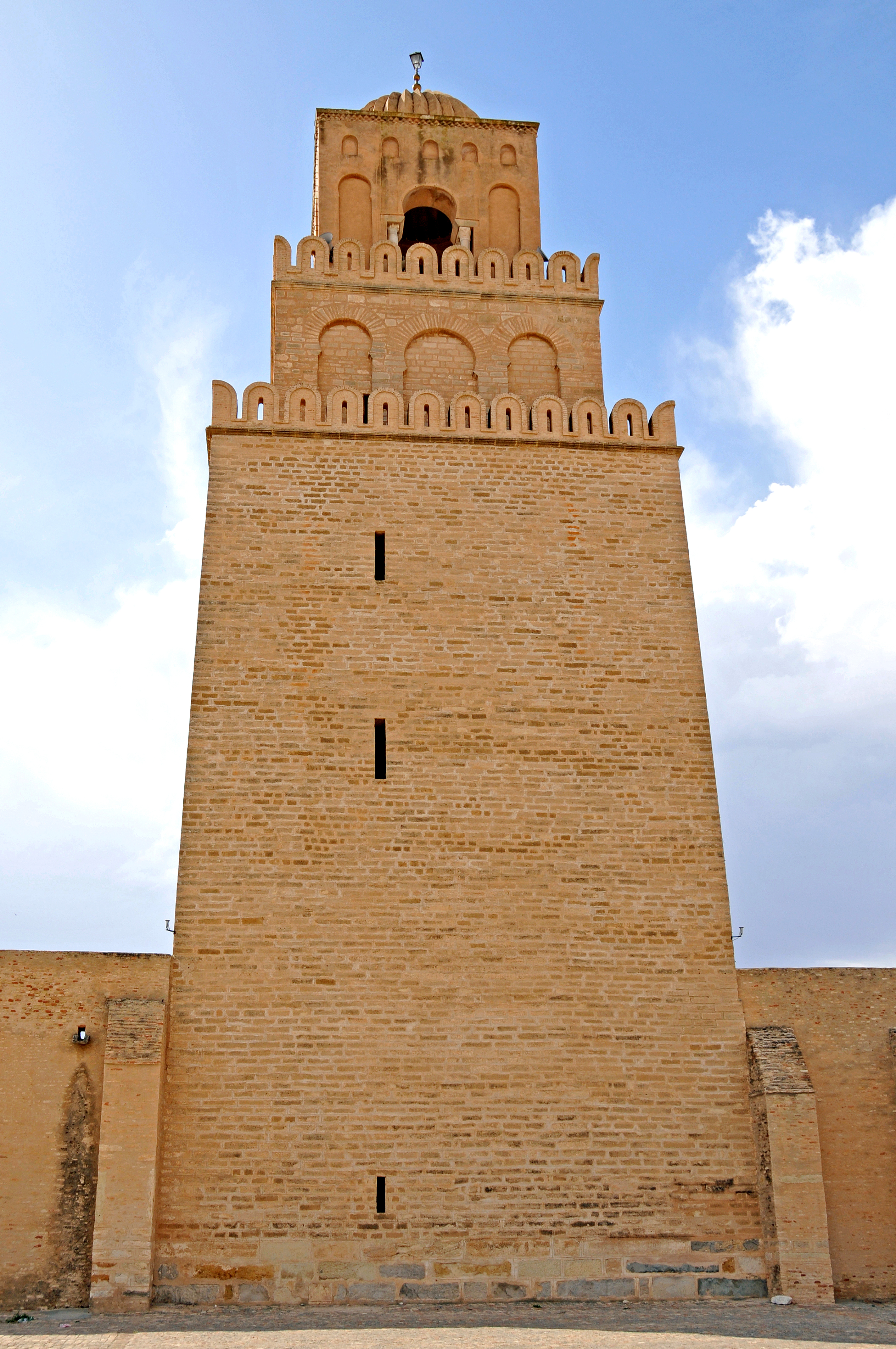 Minaret of the Great Mosque of Kairouan (also called the Mosque of Uqba), in Tunisia.